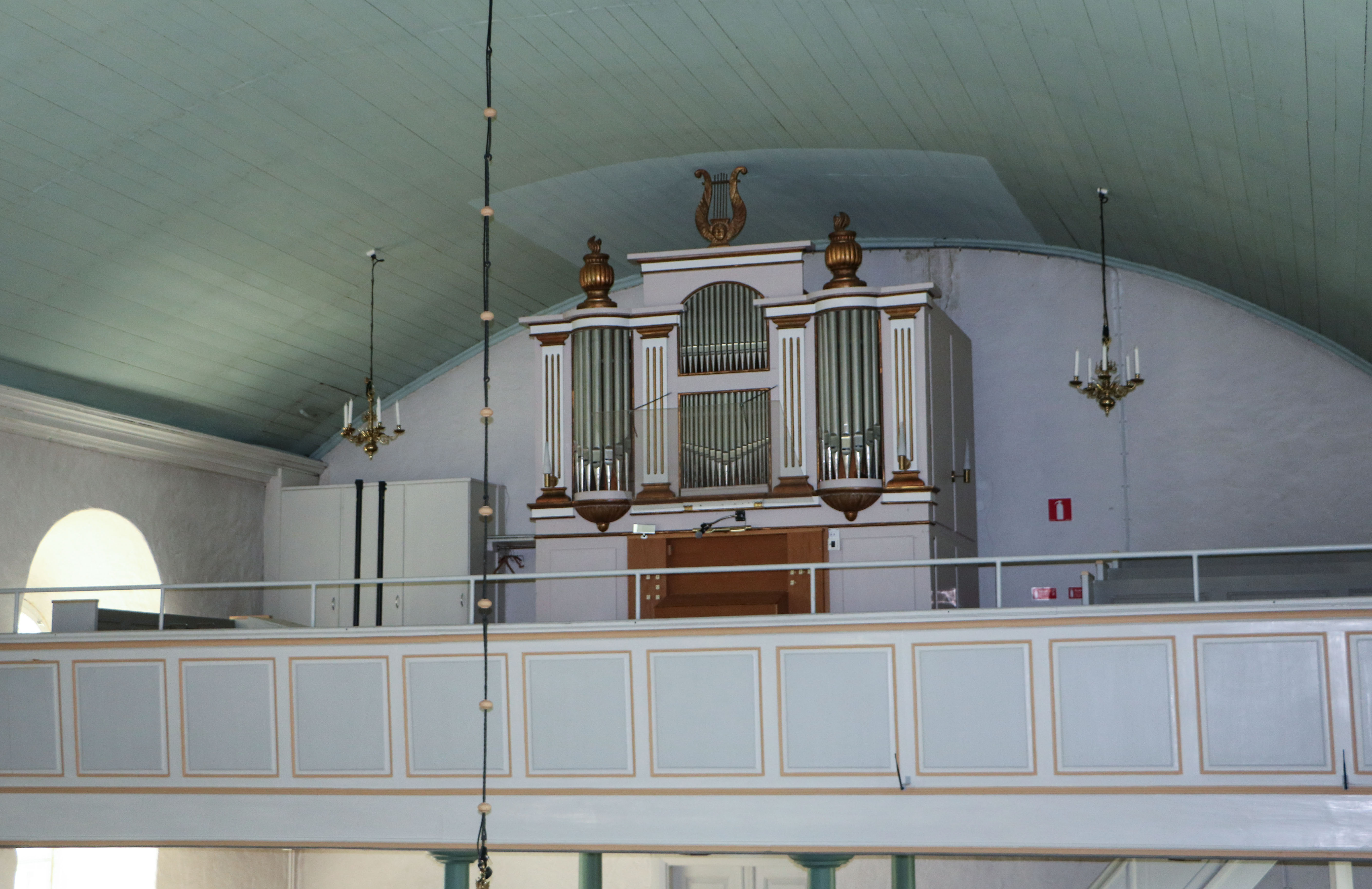 Lindås Church. The organ